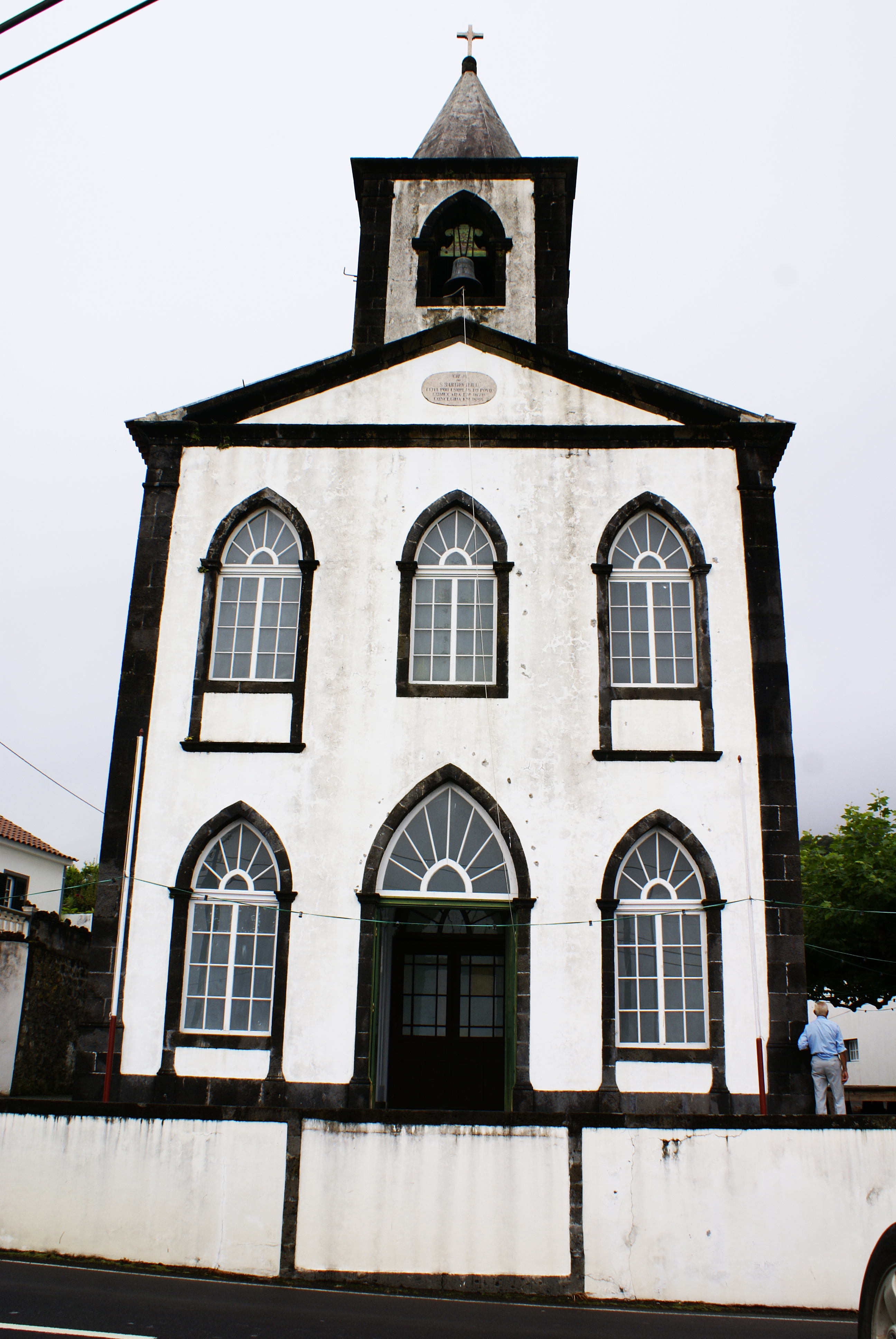 Front façade of the Church of São Bartolomeu, Silveira, Lajes, Pico (Azores), Portugal